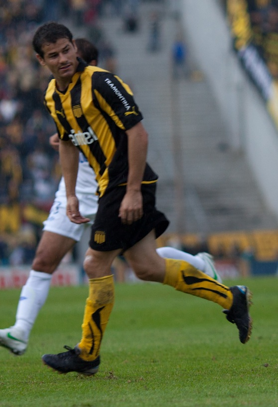 Uruguayan football player Rodrigo Mora, during a uruguayan derby while playing for Peñarol, at the Estadio Centenario.